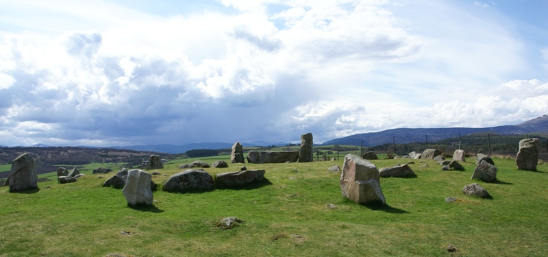 Tomnaverie Stone Circle, Aberdeenshire, Scotland